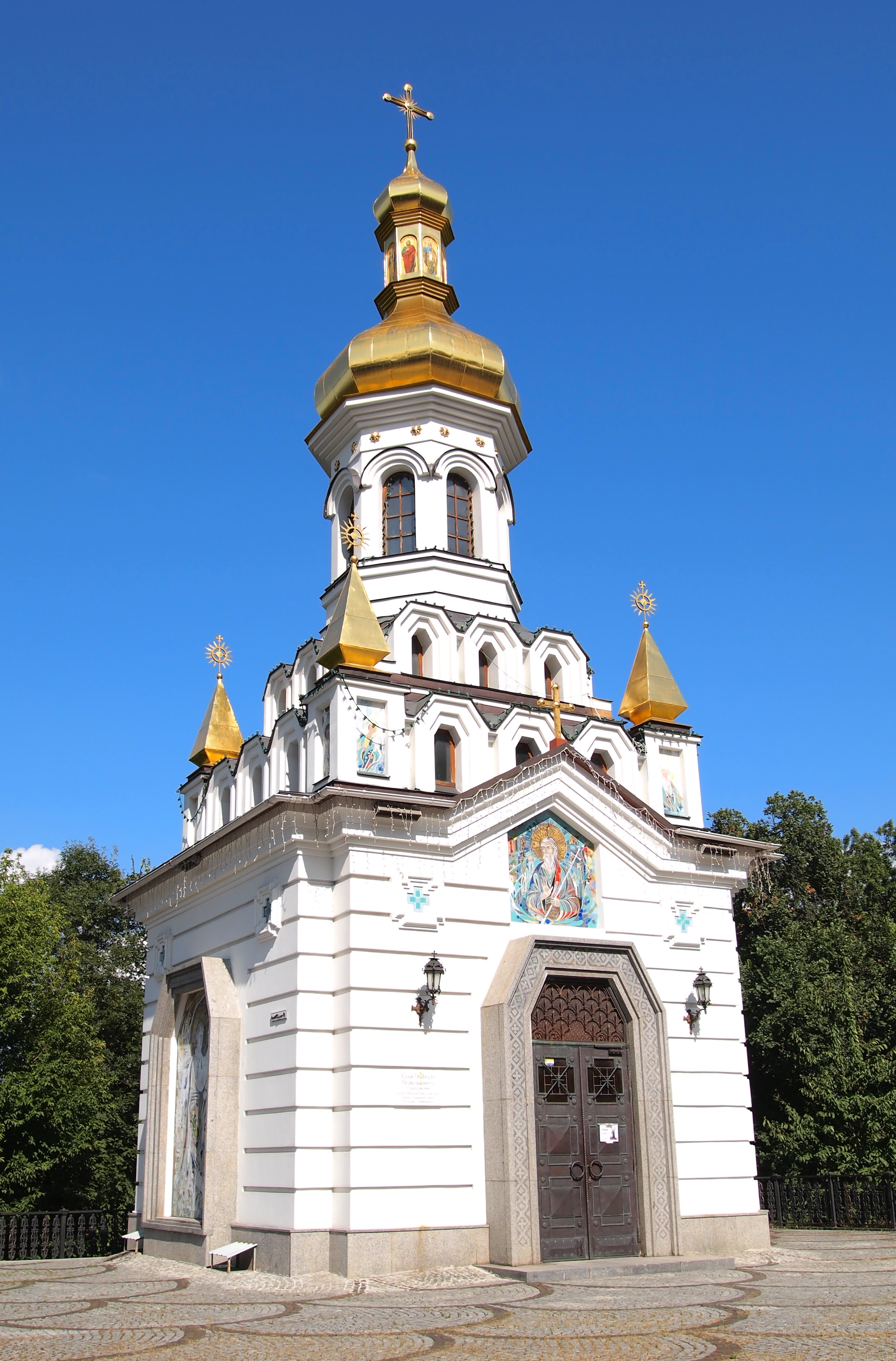 Chapel of St. Andrew near the street alleya Geroyev Krut in Kiev.